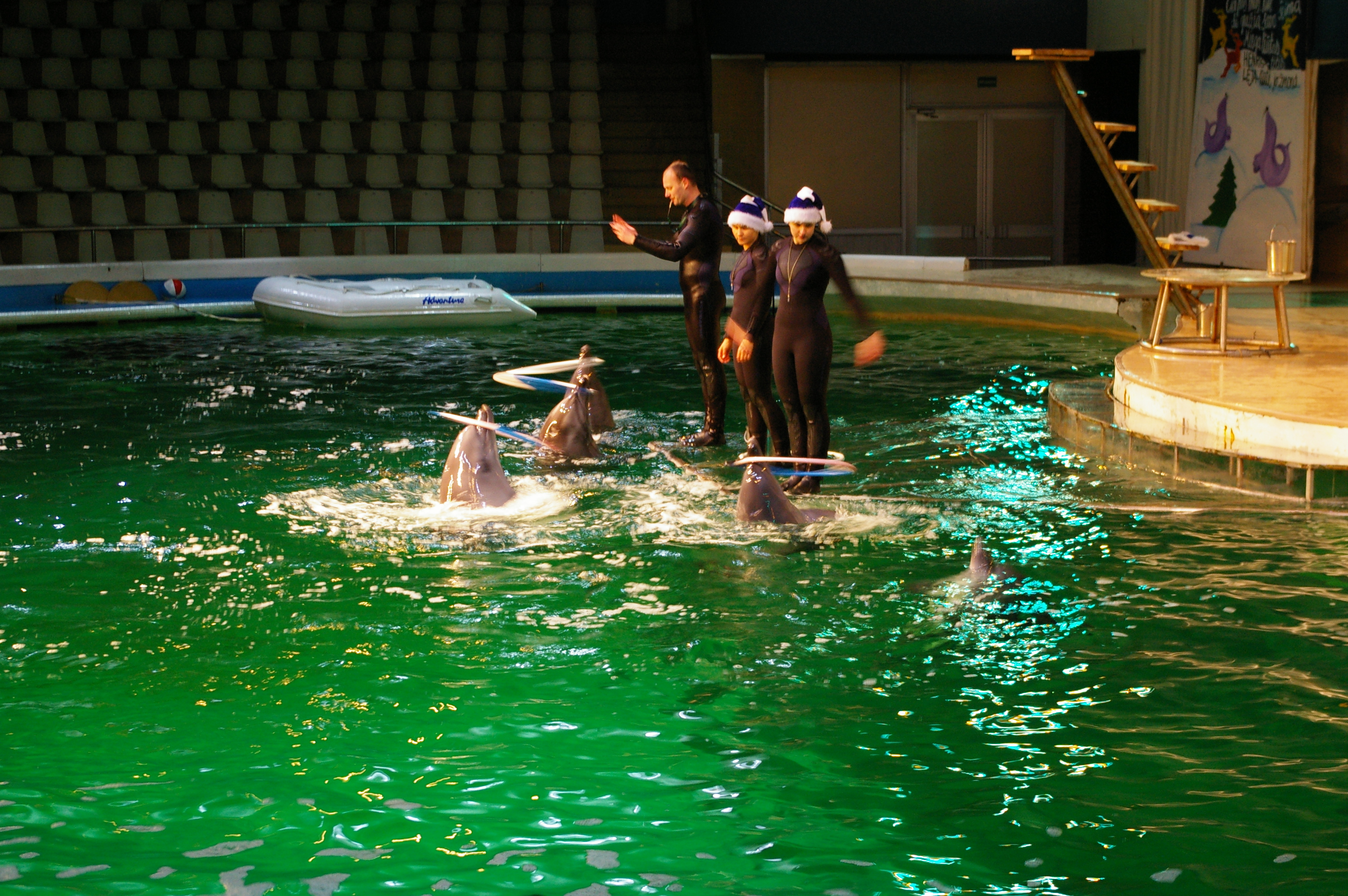 Dolphins show in Dolpninarium in Klaipėda, Lithuania.